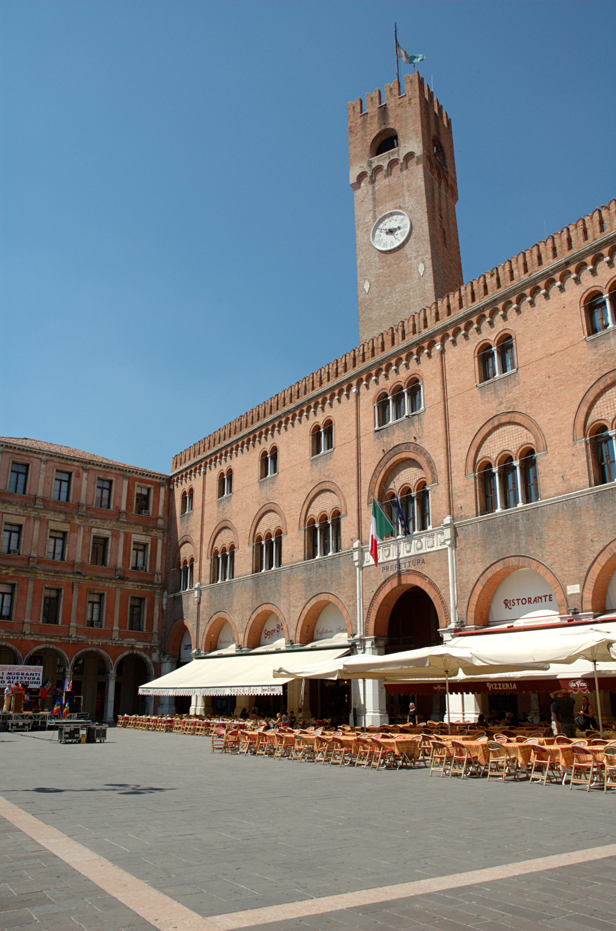 Palazzo Pretorio and la Torre Civica in Piazza dei Signori, Treviso, Italy.